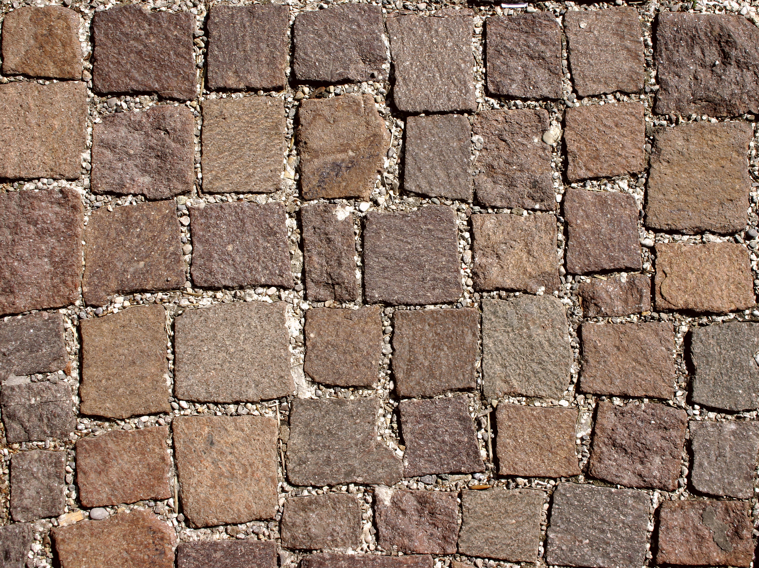 Cobblestone of quartz porphyr